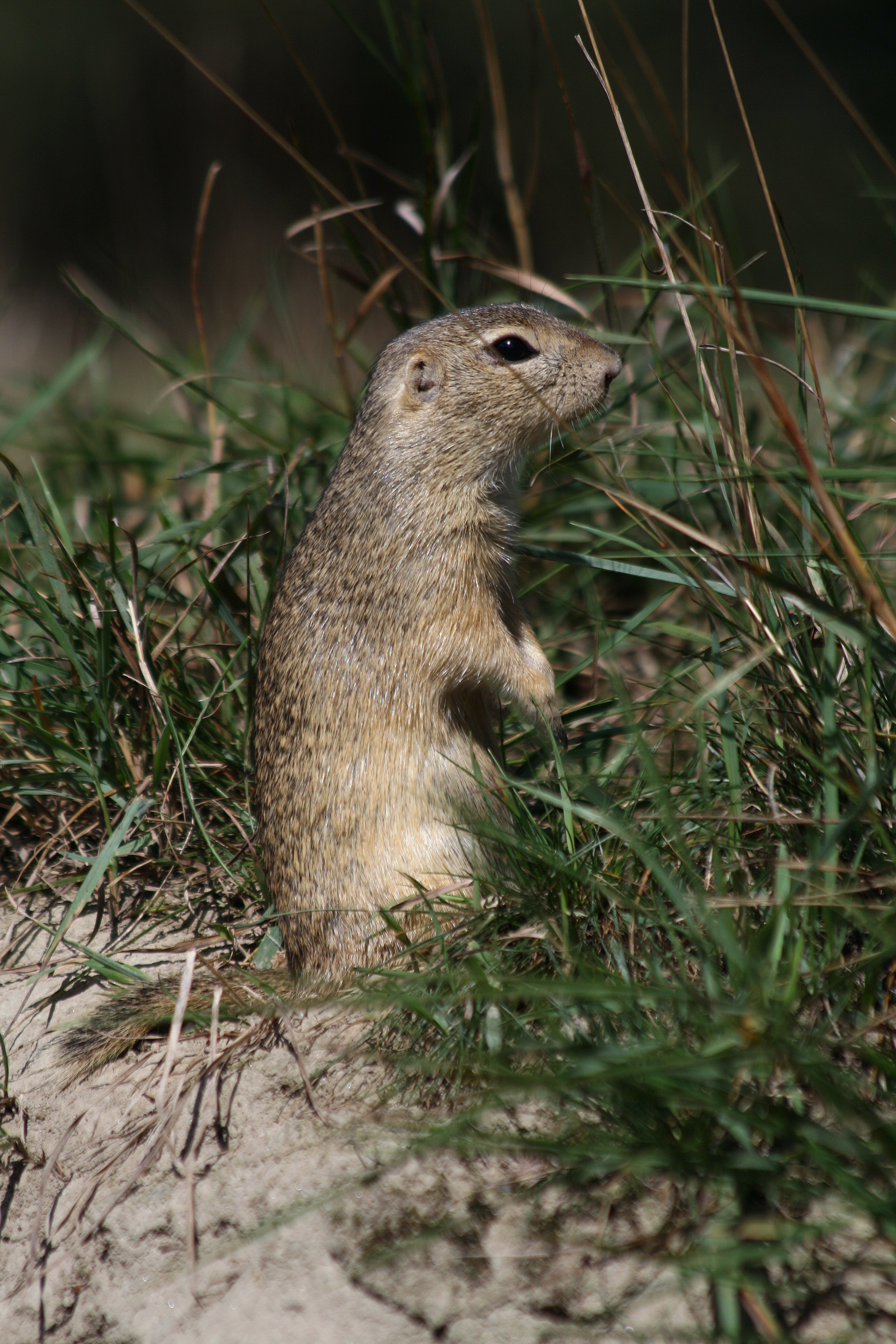 European ground squirrel (Spermophilus citellus) at Danube-Auen National Park (Orth an der Donau, Austria). This file shows the National Park Donau-Auen in Austria.